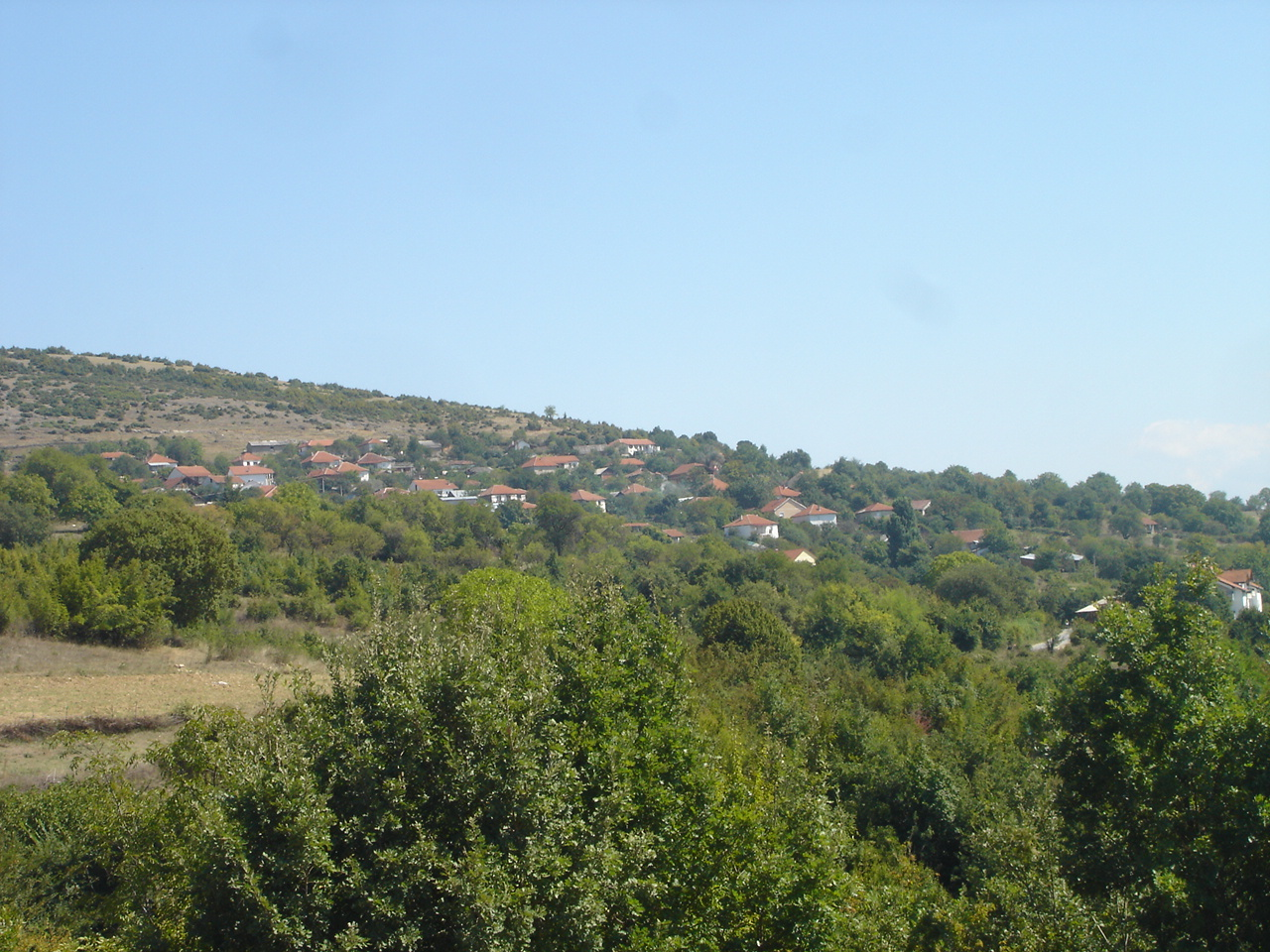 Village of Popchevo, near Strumica, Macedonia